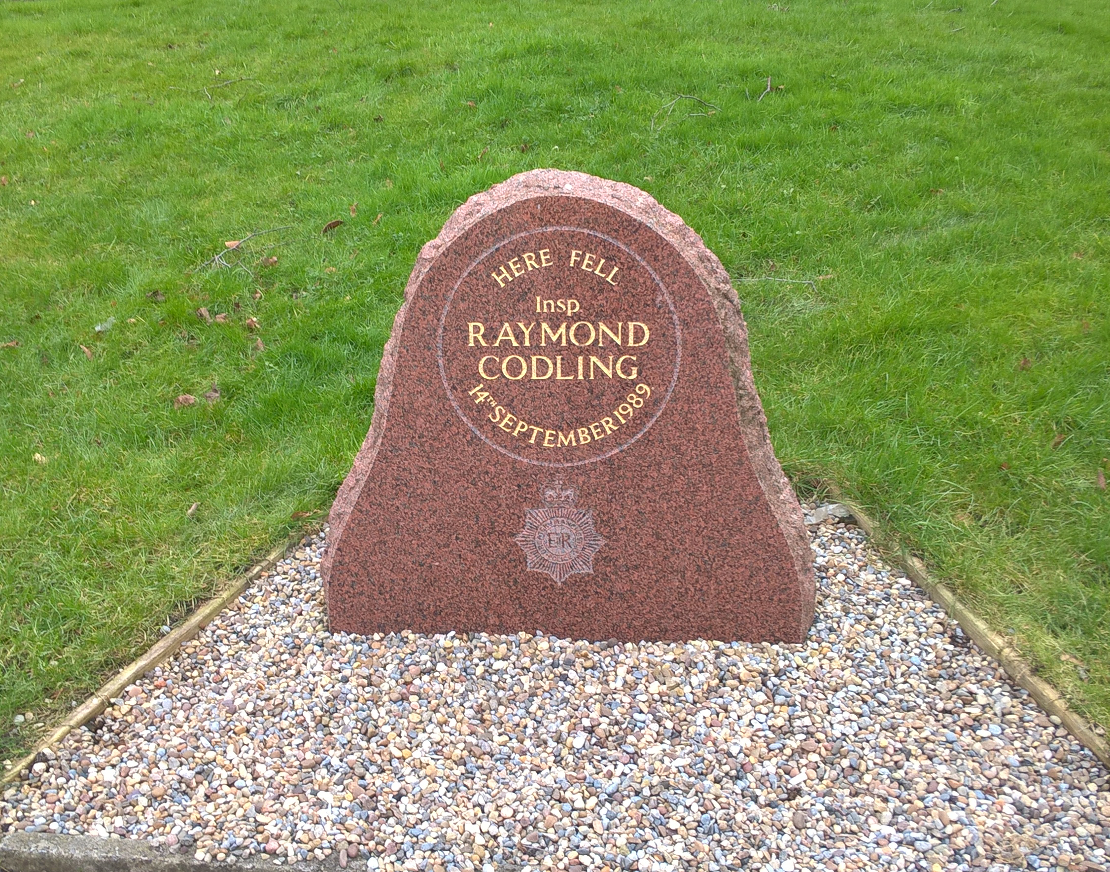 Monument to the death of police inspector Raymond Codling, at the Birch Motorway Services